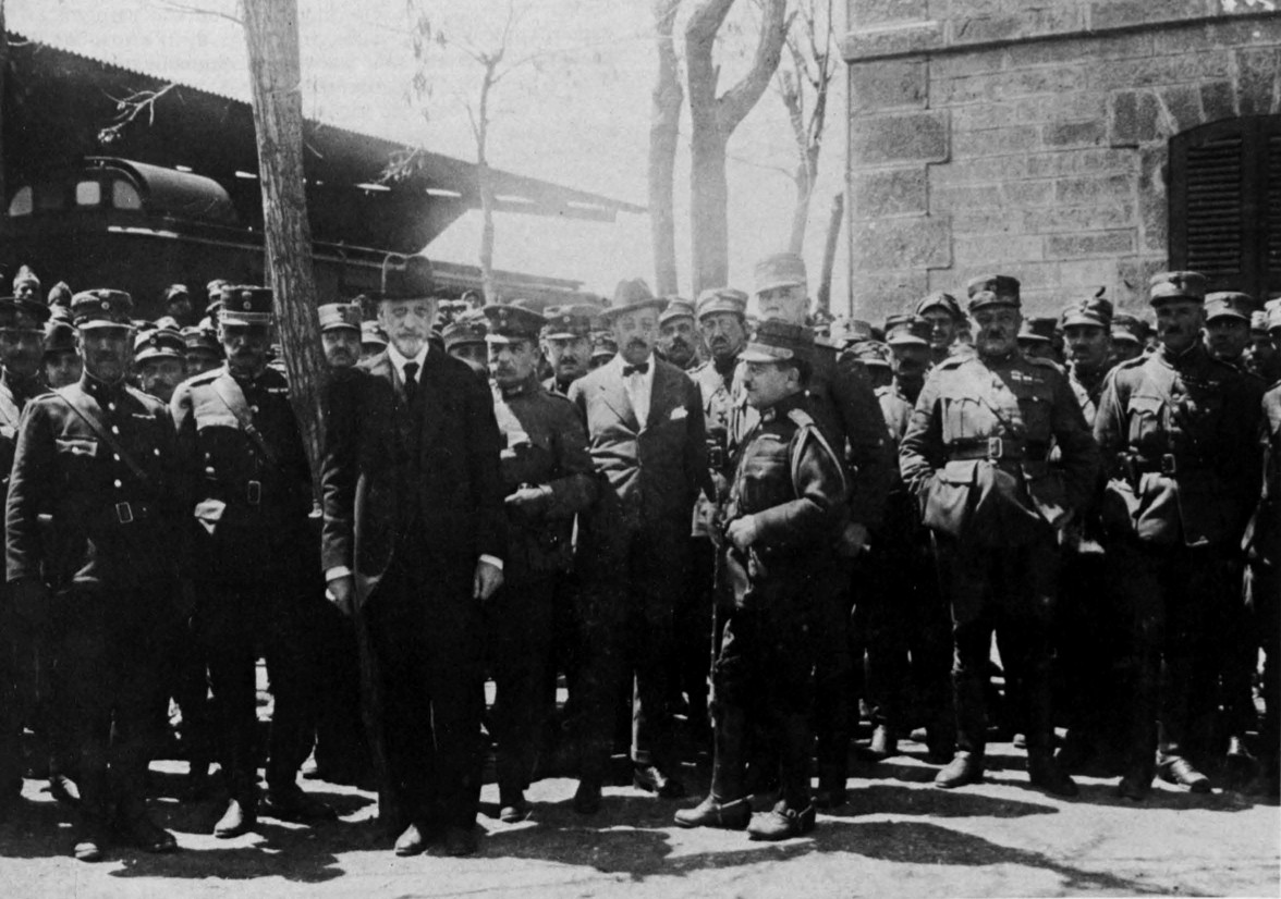 The senior Greek government and military leaders in Asia Minor June 1921.Second from left, Lt. Gen. Anastasios Papoulas, C-in-C of the Army of Asia Minor. Next to the tree (with white goatee), Prime Minister Dimitrios Gounaris, to his right Lt. Gen. Viktor Dousmanis, Army Minister Nikolaos Theotokis, Maj. Gen. Xenophon Stratigos and behind him Maj. Gen. Alexandros Kontoulis.